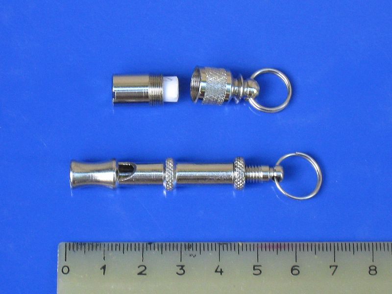 Dog ultrasound whistle and collar ID tube tag.